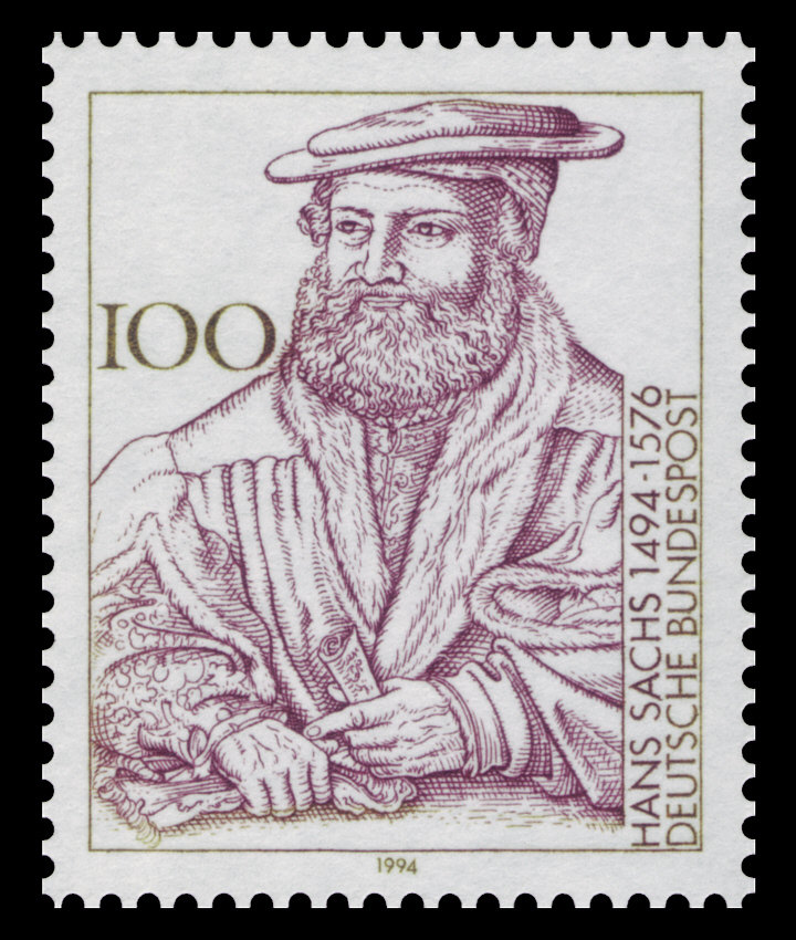 500th day of birth of Hans Sachs (1494—576)